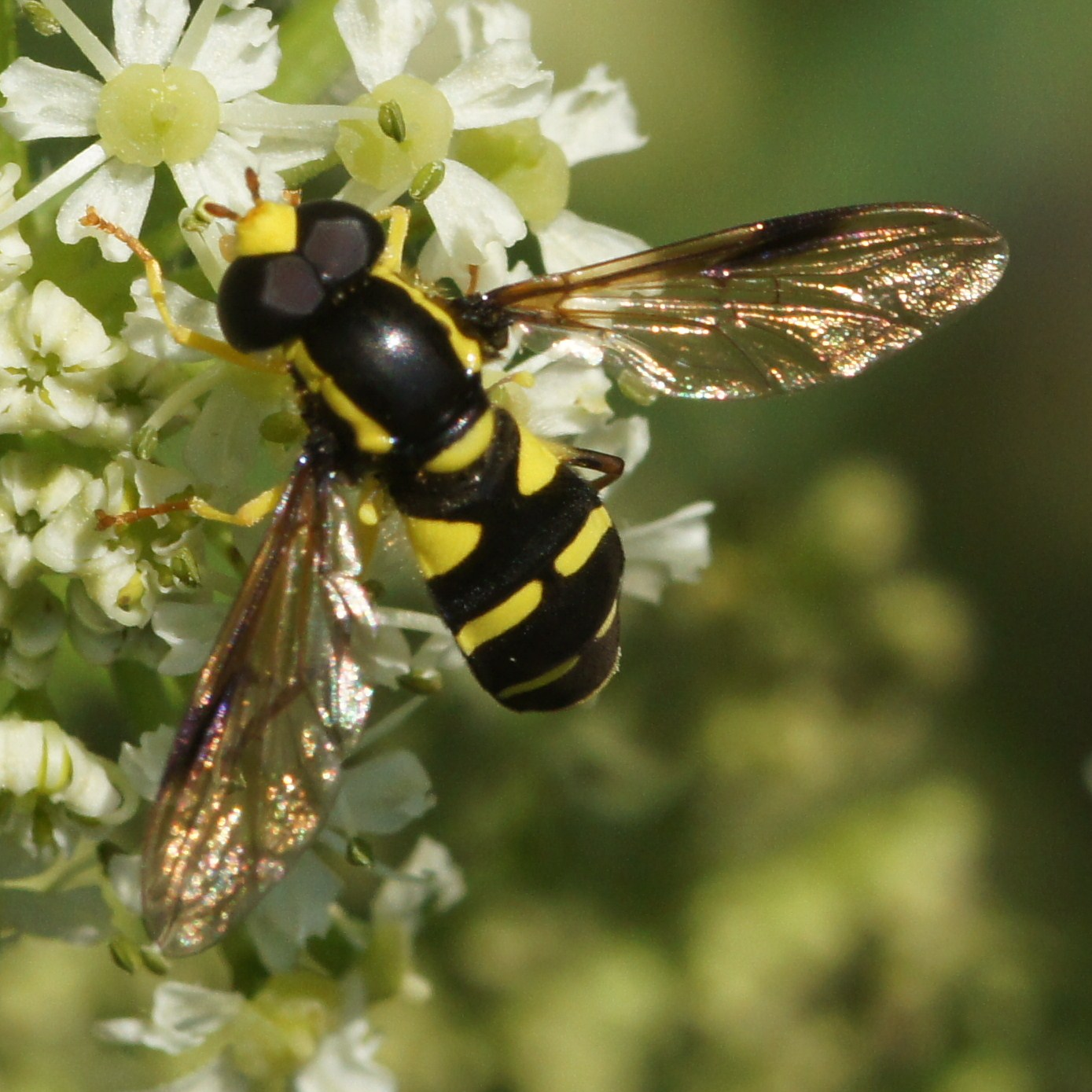 Xanthogramma pedissequum (male). Picture taken i Skåne, Sweden.